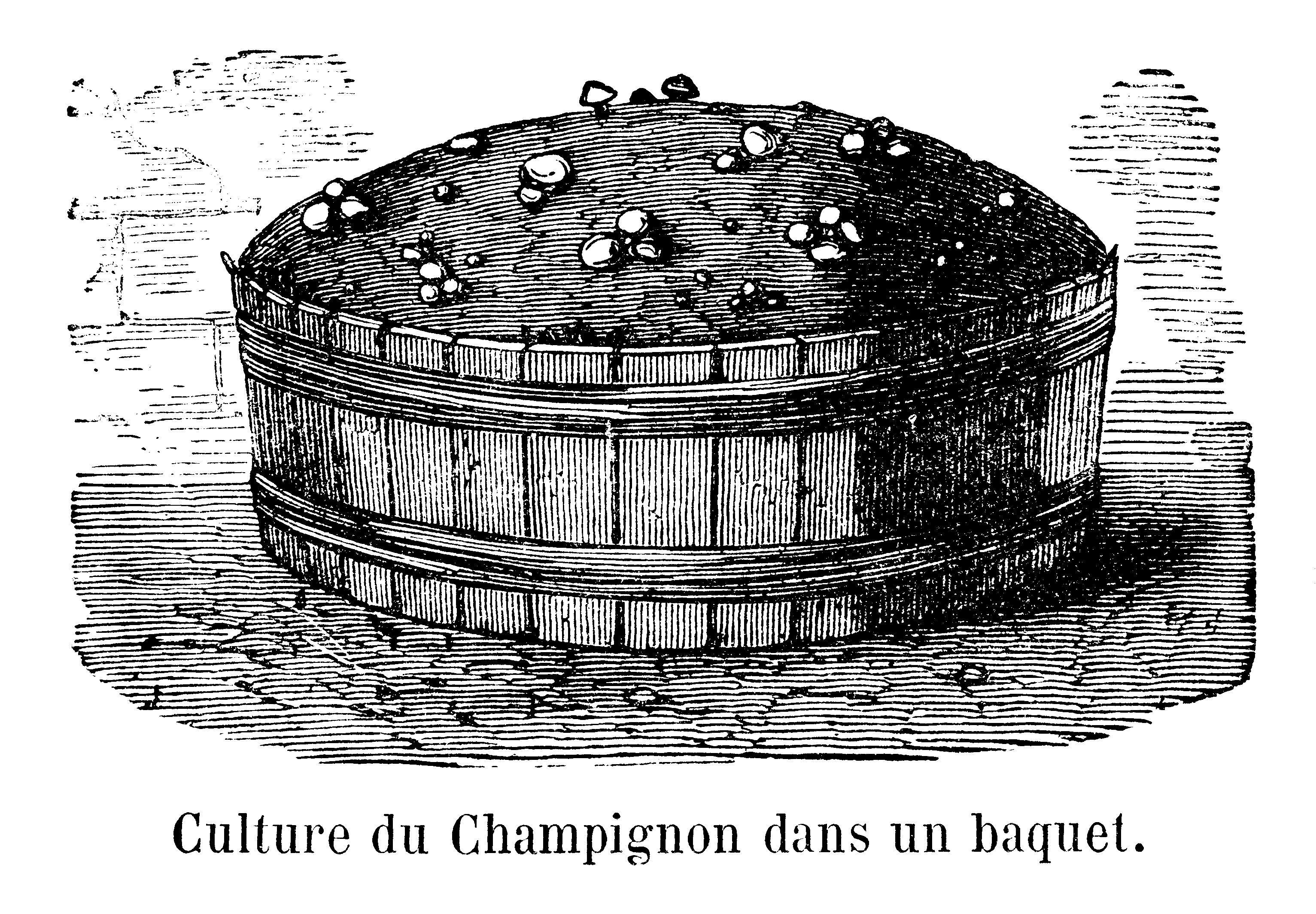 mushroom cultivation in a tub